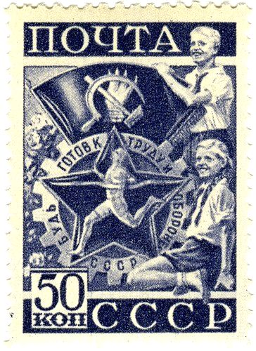 Марка "Пионерский значок и значок "БГТО""